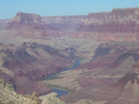 The Colorado River from the Tanner Trail. The butte is Chuar Butte; a much lower ridge, directly south,(a dk reddish-brn color) is Temple Butte. Two airplane crashes occurred between them.